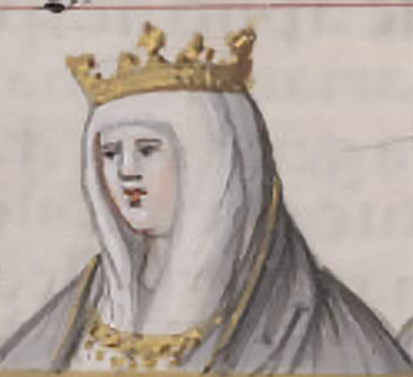 Katherine of Lancaster